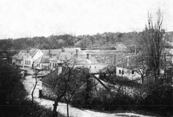 Village of Sycava (or Žikava,Zsikva) in the 1950's. Region of Nitra, in westenrn side of Slovakia.